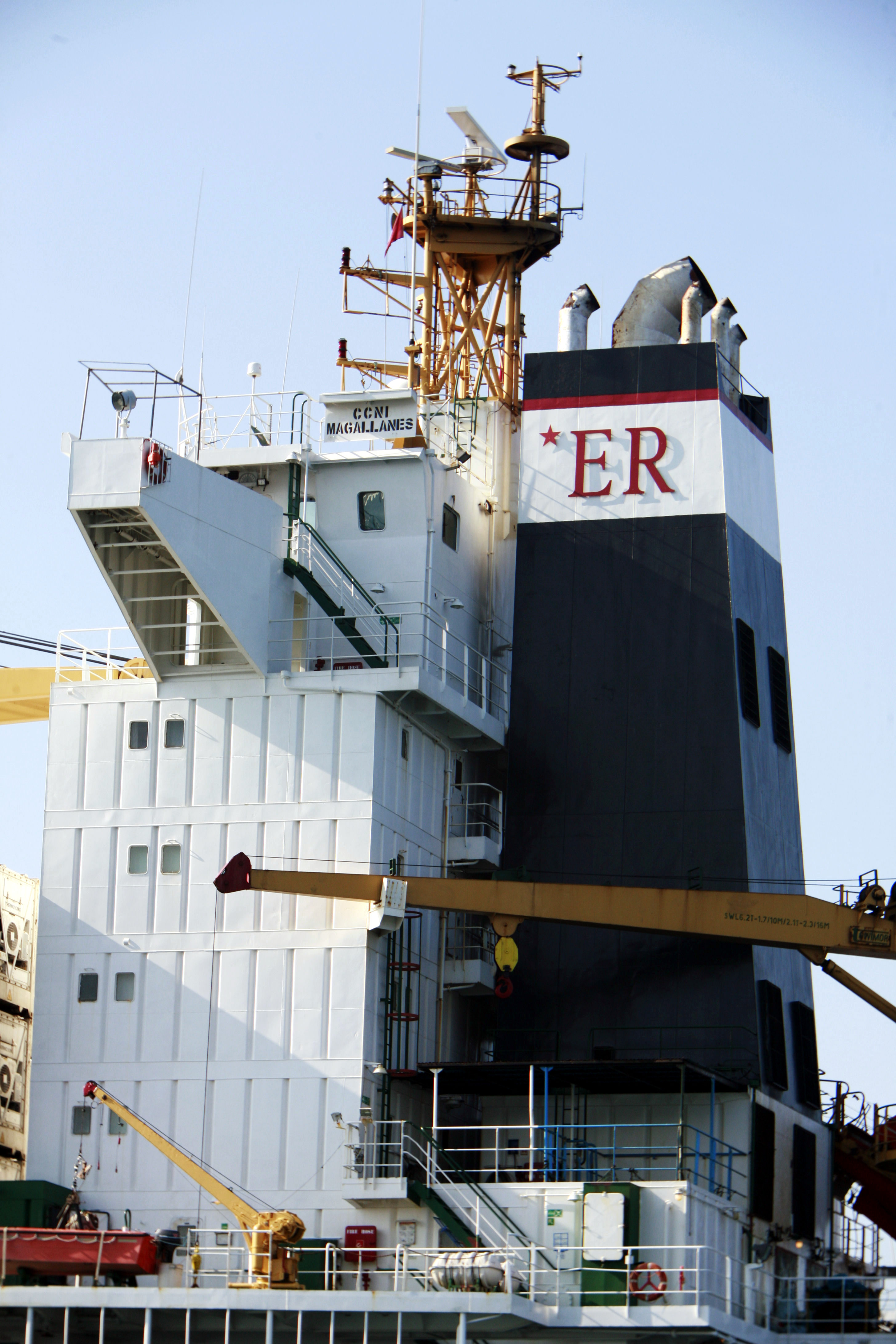 Freighter CCNI Magallanes